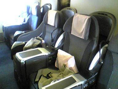 Japan Airlines business class seat